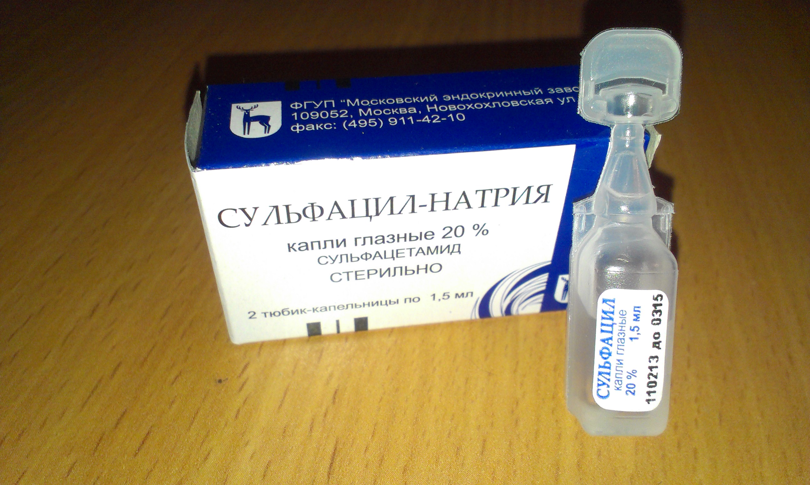 Sulfacetamide eye drops